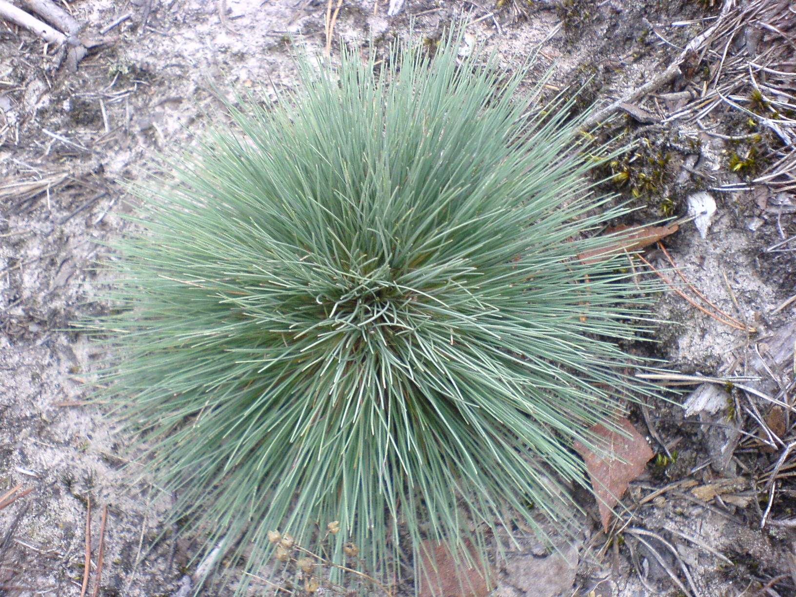 borsttåtel, Corynephorus canscens